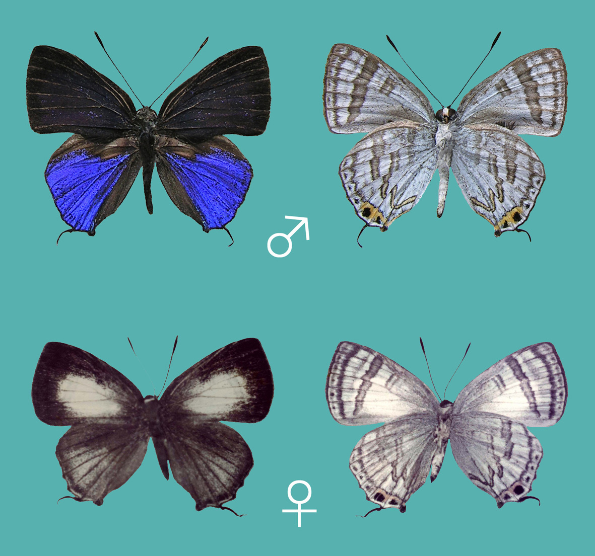 Sinthusa mindanensis, male & female